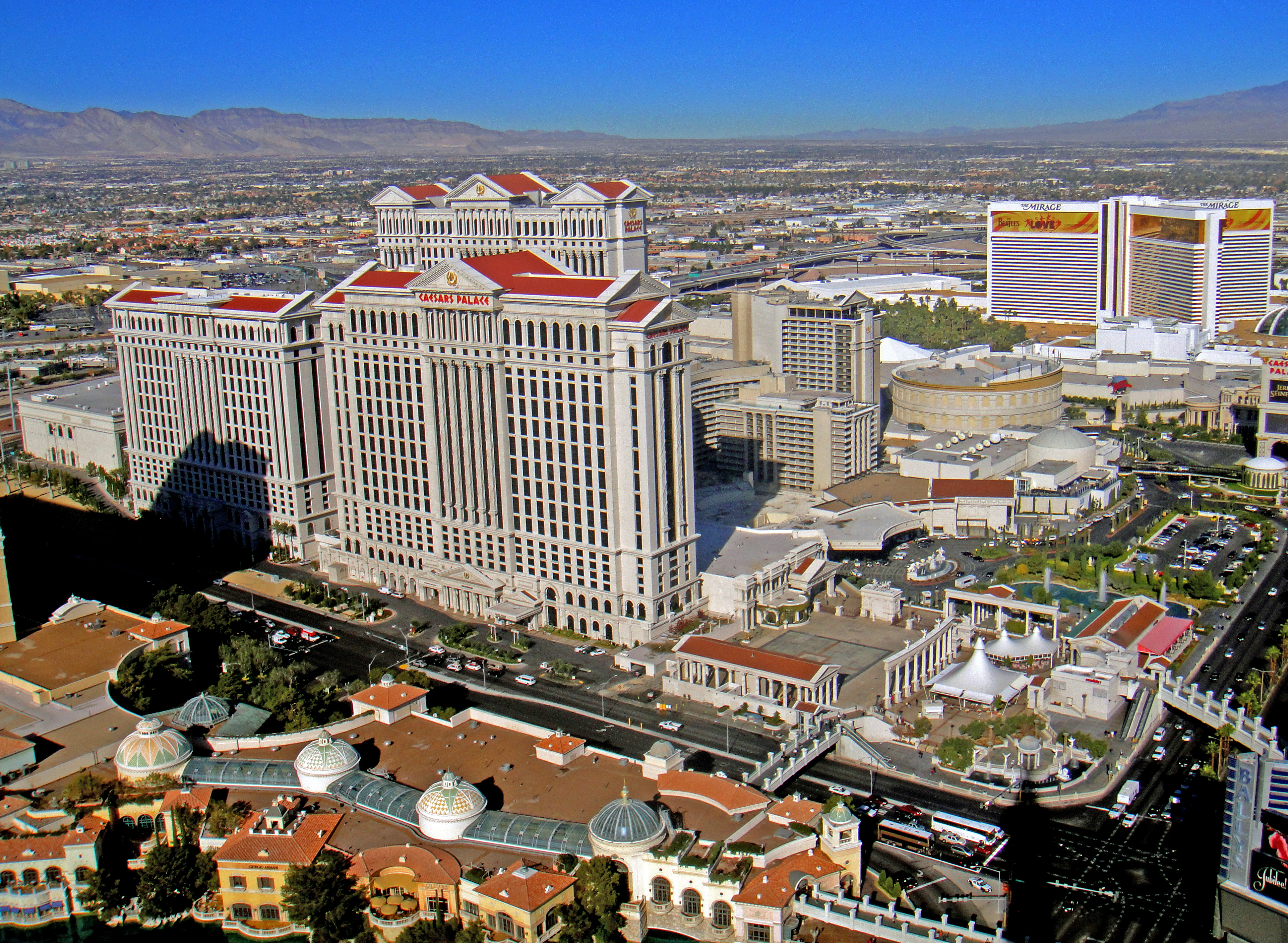 Caesars Palace viewed from the top of the Eiffel tower at Paris Las Vegas.